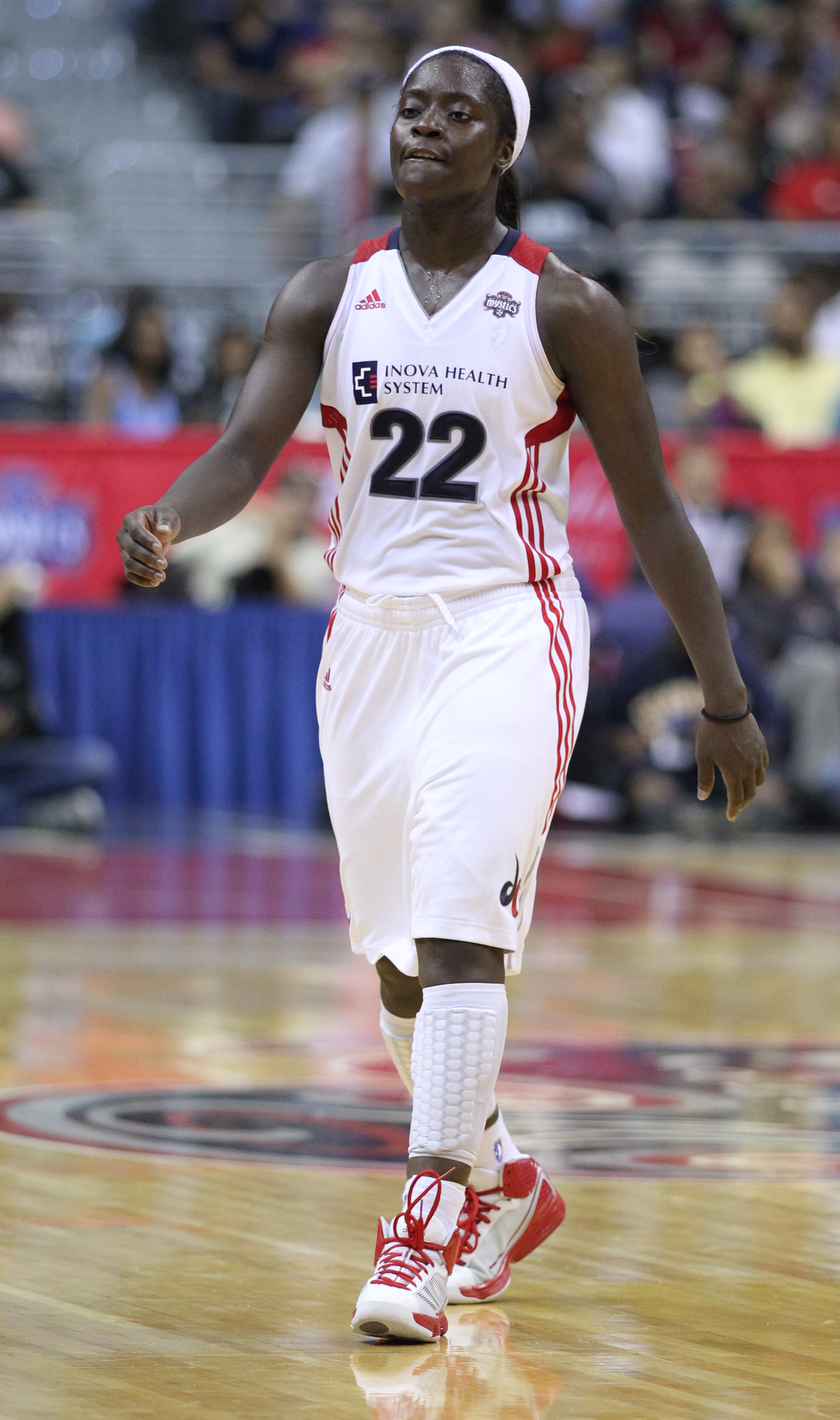 Matee Ajavon of the Washington Mystics (at time of photo)